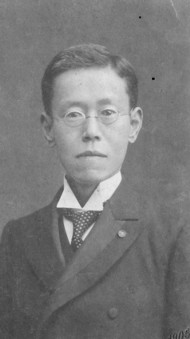 Yūjirō Motora